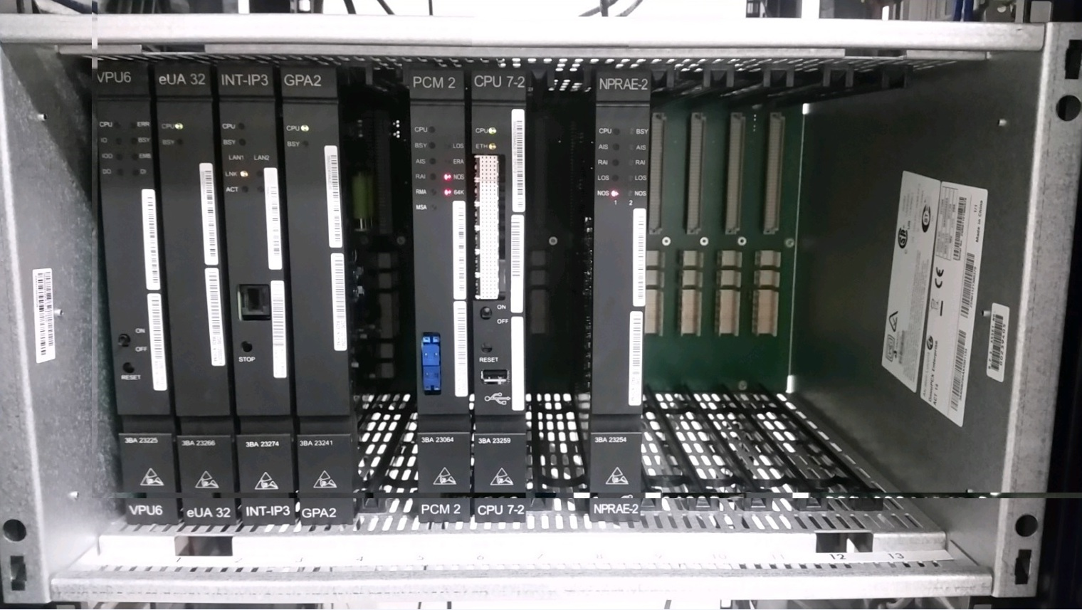 Alcatel - PABX - Omni PCX Enterprise - front view with Voice card, one E1 card (for recording voice) and one primary CPU card.